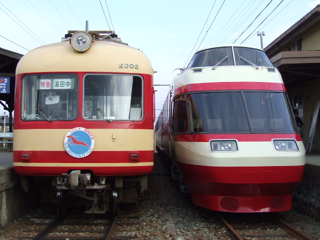 Nagano Electric Railway 2000 series EMU set A (left) and 1000 series EMU (right)